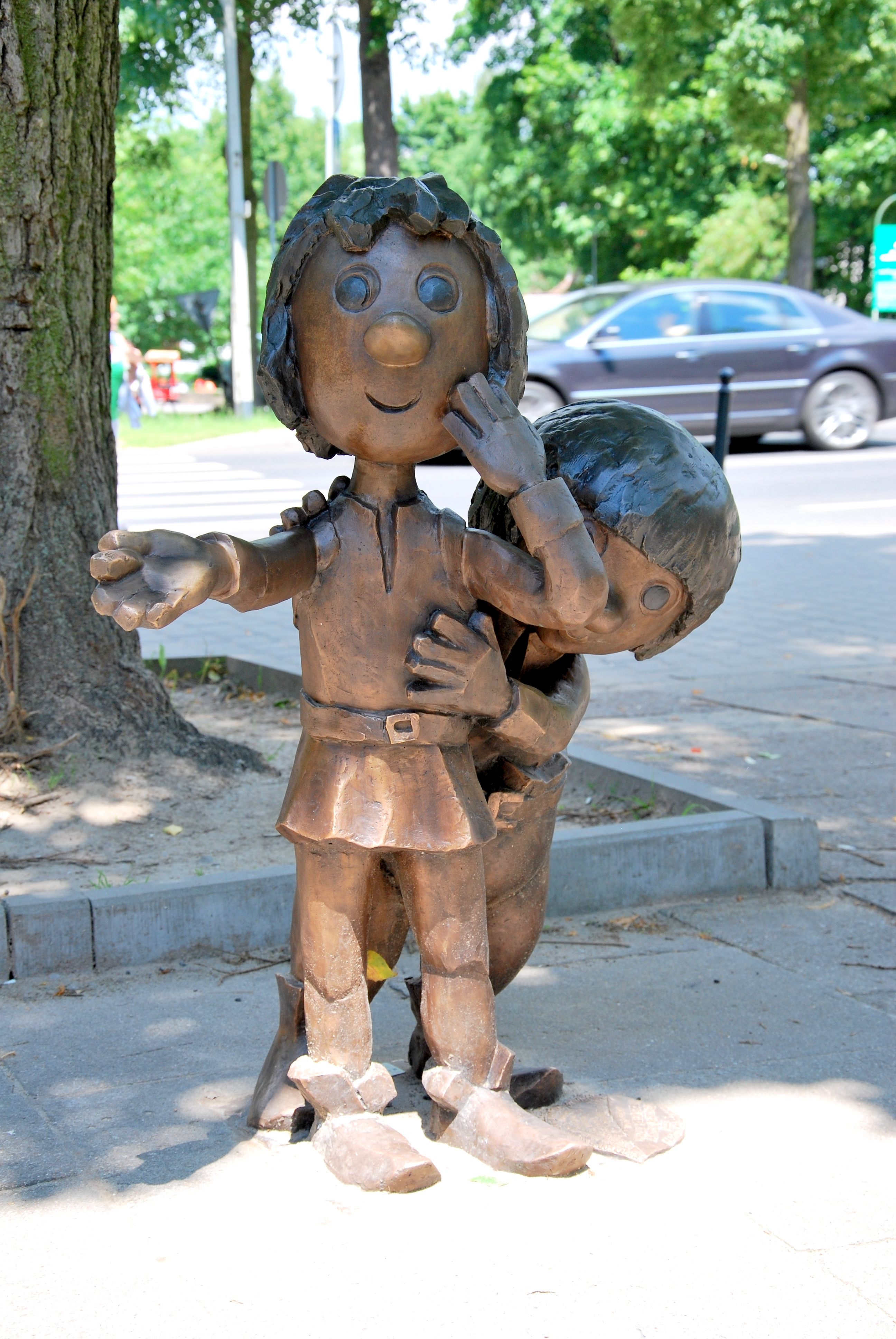 Maurycy and Hawranek sculpture in Łódź